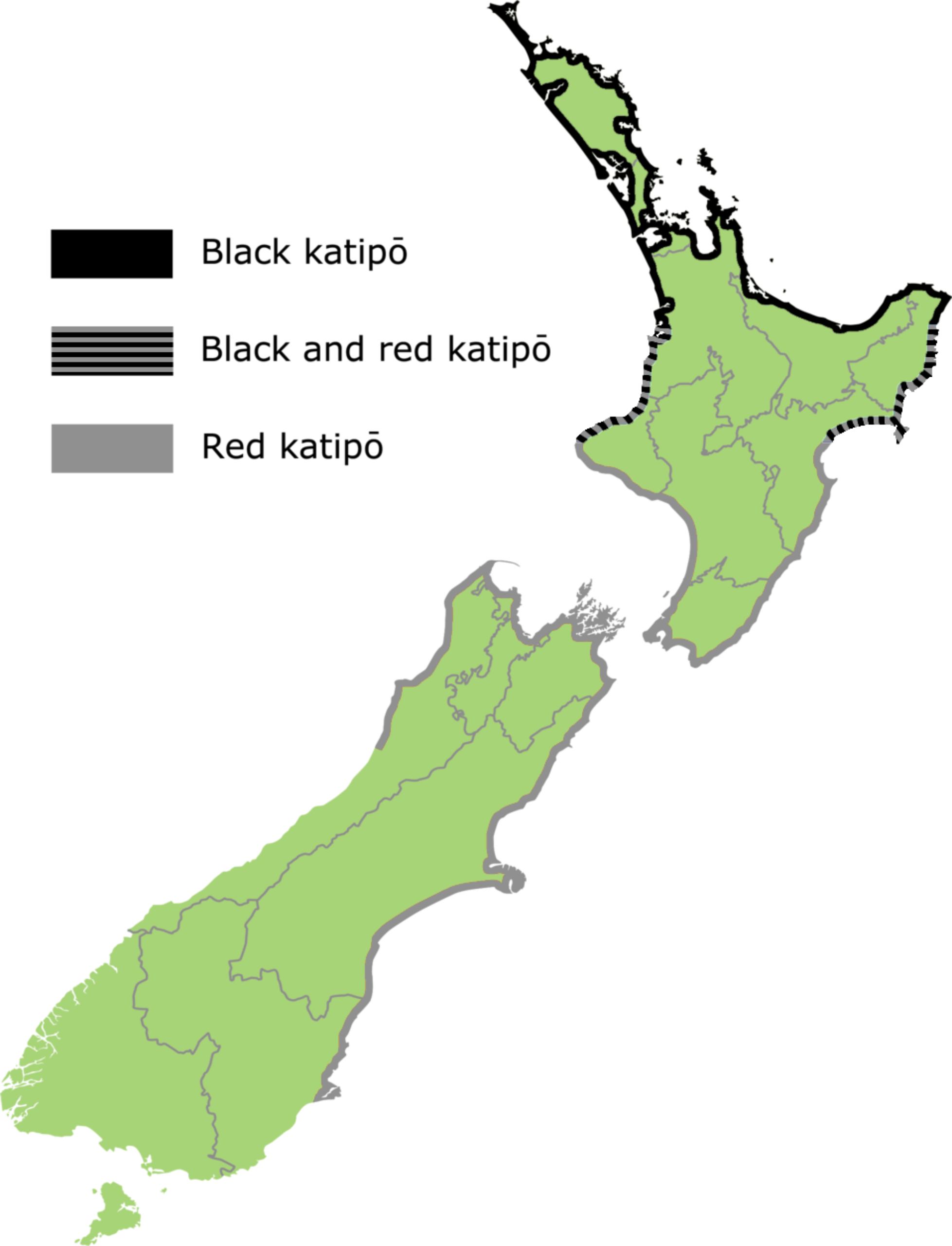 Approximate range of black and red forms of Latrodectus katipo